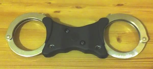 Hiatt Speedcuffs, picture taken by myself. Showing the two key holes. To double lock the handcuffs you need to use the pin on the end of the handcuff key and push in "pin" at the end where the ratchet comes out. Dep. Garcia ( Talk +